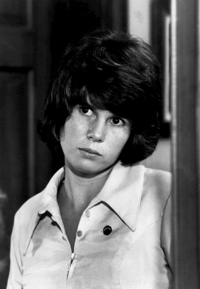 Photo of Kim Darby as a guest star on the television programs Marcus Welby, M.D. and Owen Marshall, Counsellor at Law in 1974. The two shows combined for a two-part special episode where half of it was seen on one program and the second half on the other.